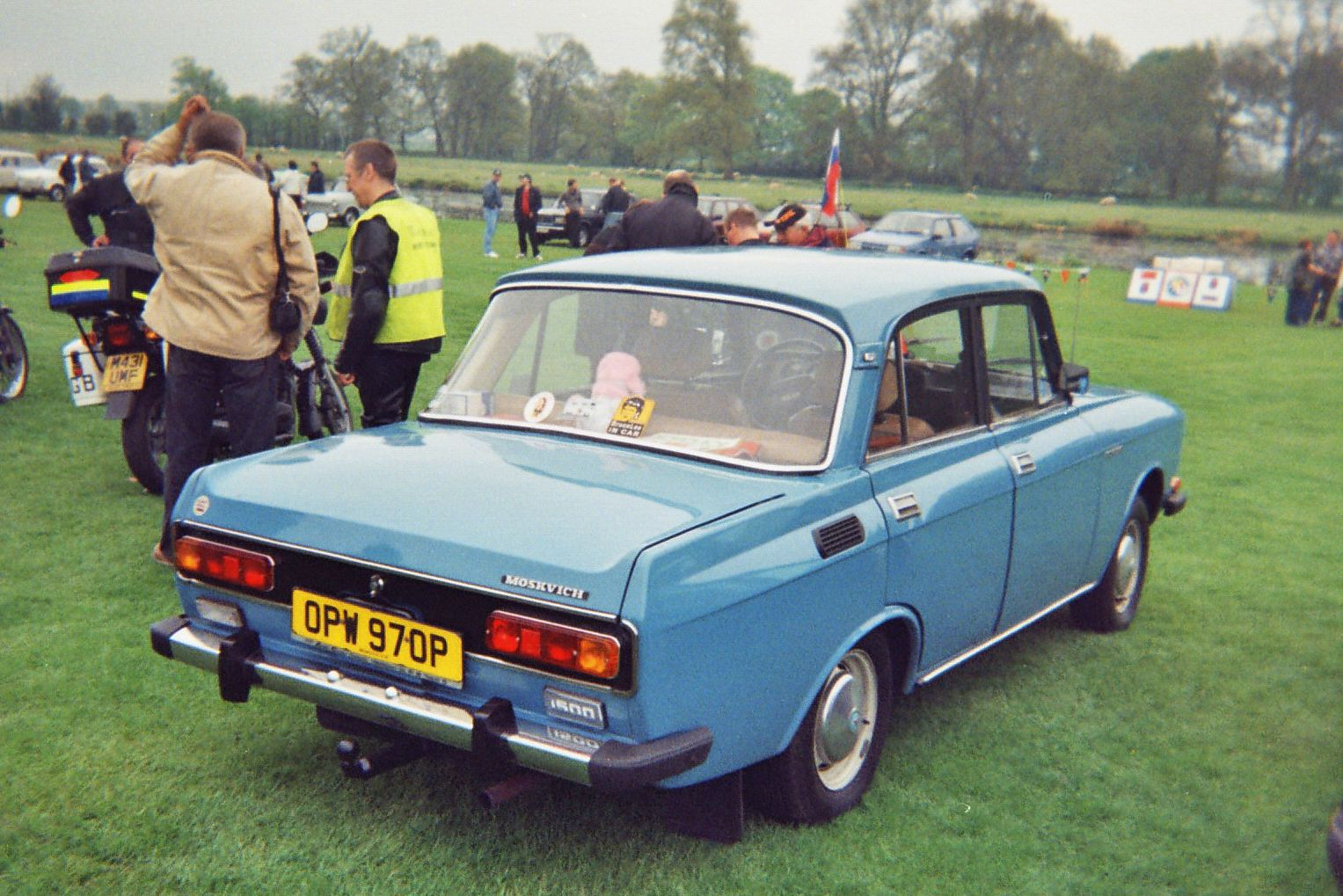 Moskvitch 1500 (back view)